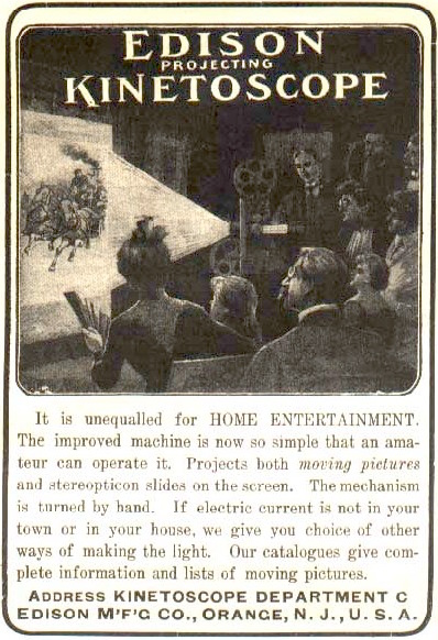 Newspaper ad for Edison's Projecting Kinetoscope, published ca. 1900–10